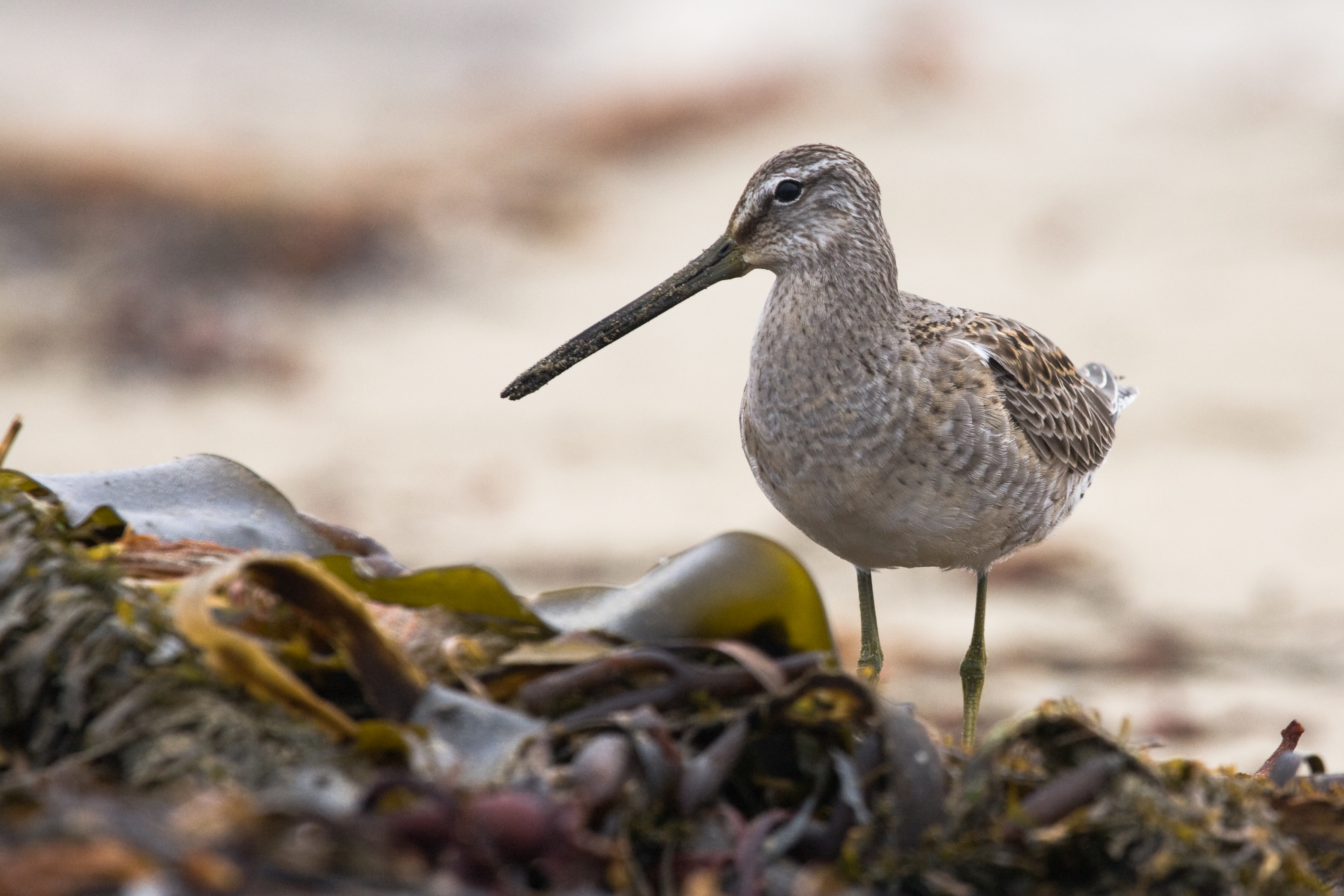 Long-billed Dowitcher, Limnodromus scolopaceus, is a medium-sized shorebird of the family Scolopacidae, as seen on Morro Strand State Beach, 28 Oct. 2008. Michael "Mike" L. Baird, Canon 5D 100-400mm IS handheld.